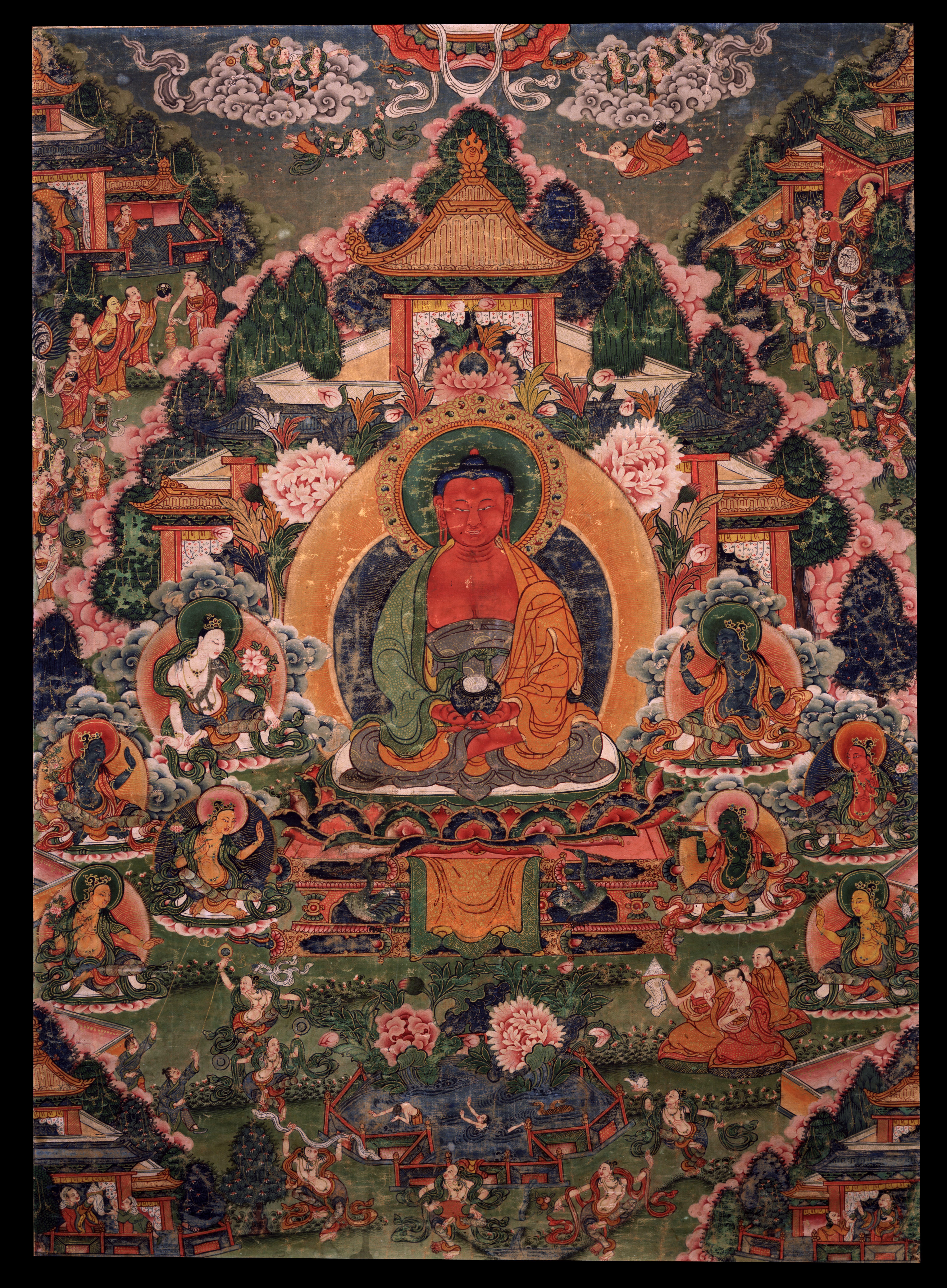 Buddha Amitabha in His Pure Land of Suvakti, Central Tibet. 18th century; Ground mineral pigment on cotton, 73.66x53.34cm (29x21in). Rubin Museum of Art, C2006.66.307HAR701. Amitabha, Buddha residing in the pureland of Sukhavati with the 8 great bodhisattvas seated at the sides.